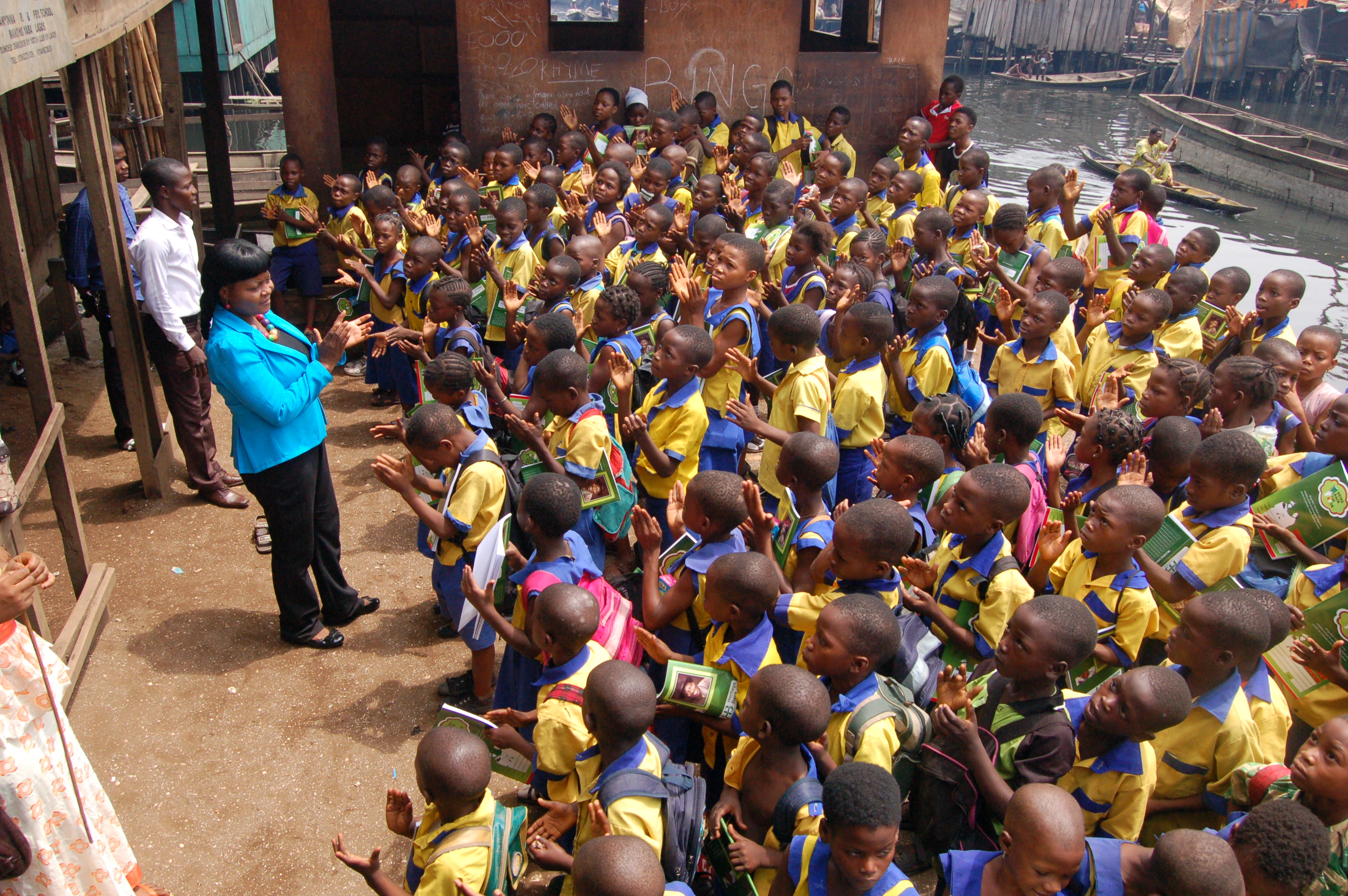 School outreach to pupils in Makoko, a waterside slum in Lagos, Nigeria. A part of CEE-HOPE's Rise-Against-Rape- and-Abuse (RARA) project.